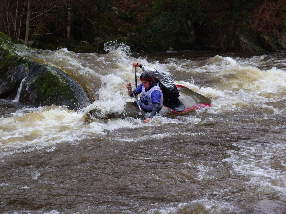 C2 at Roches du Diable